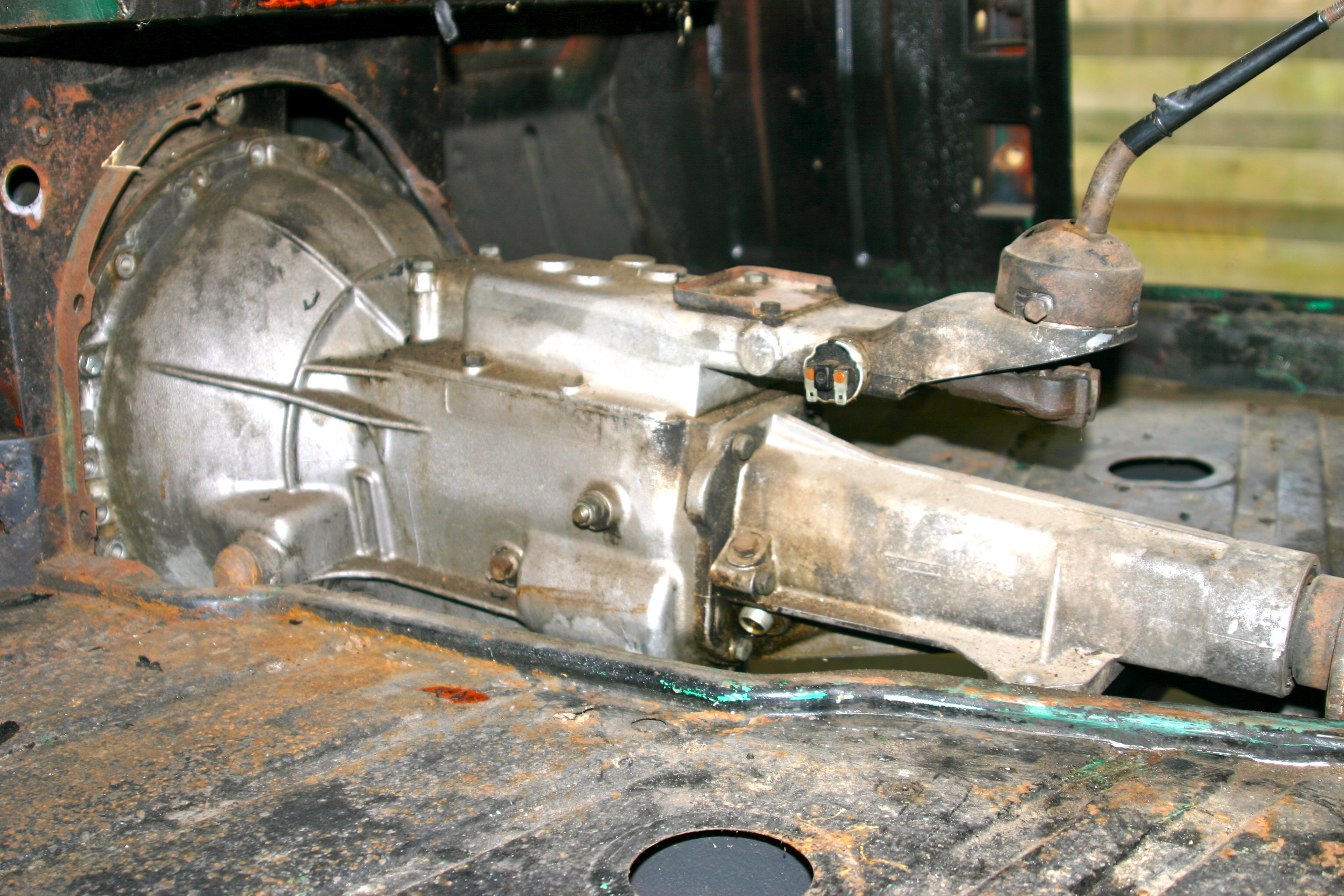 This is a Triumph Gearbox without an Overdrive